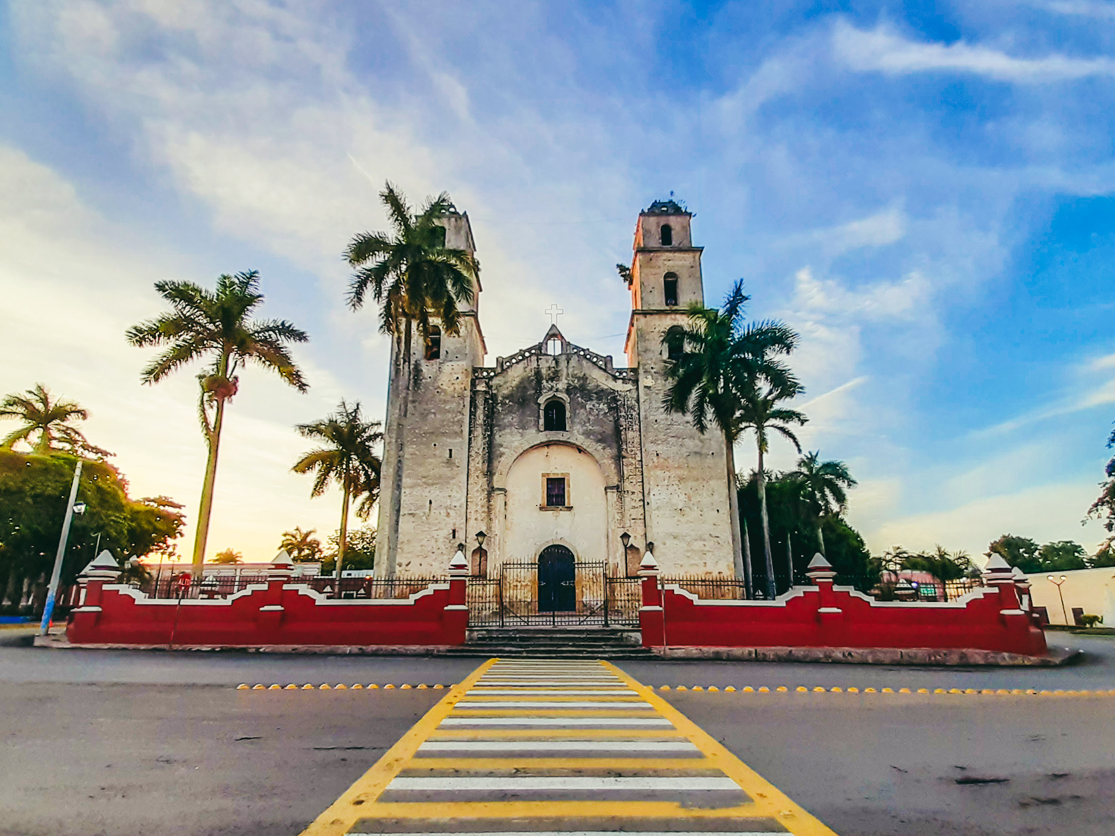 Church in Espita, Yucatan.